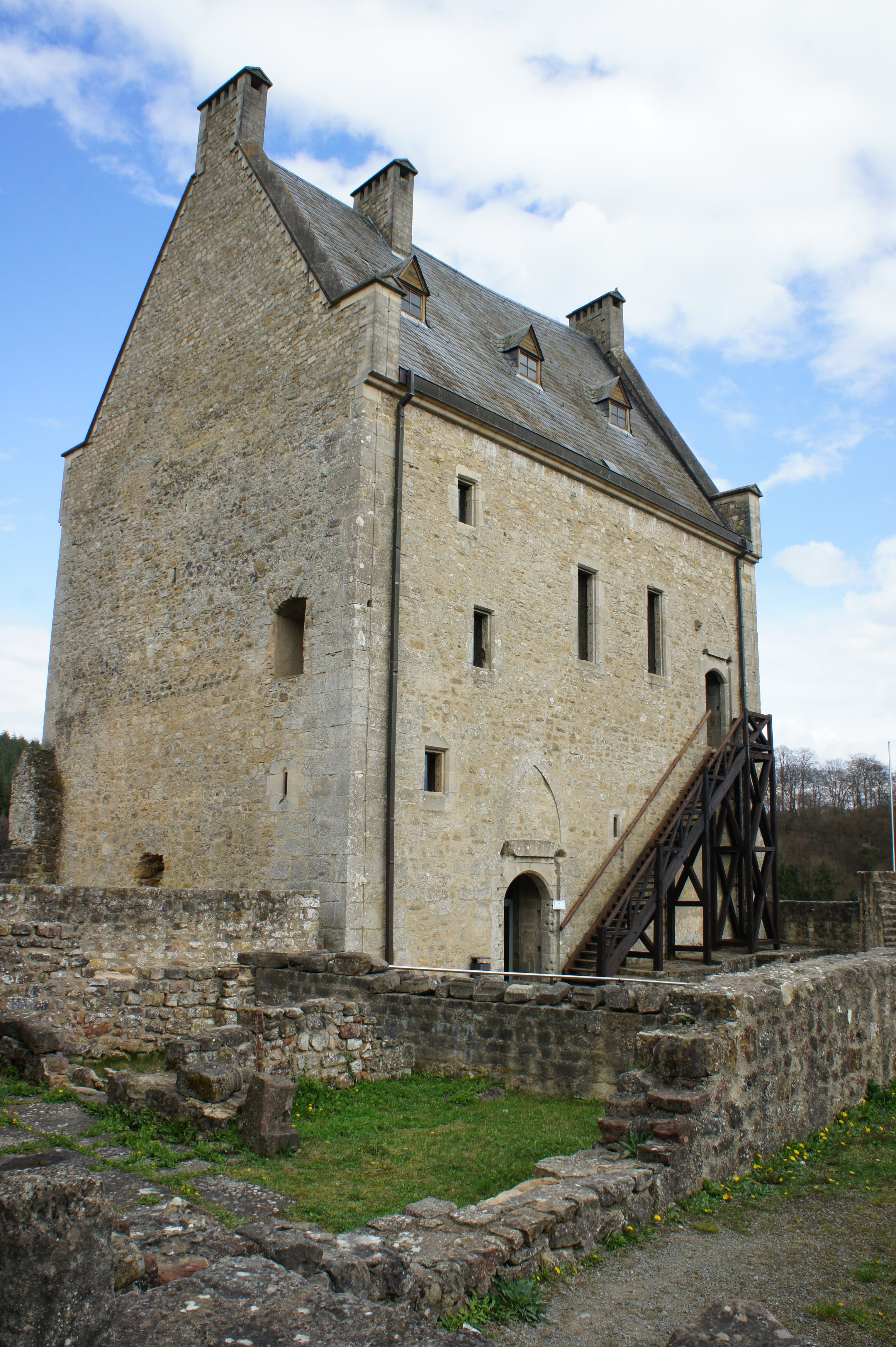 Criechinger Home